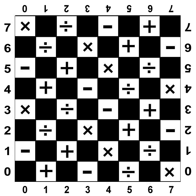 The standard board for playing Damath